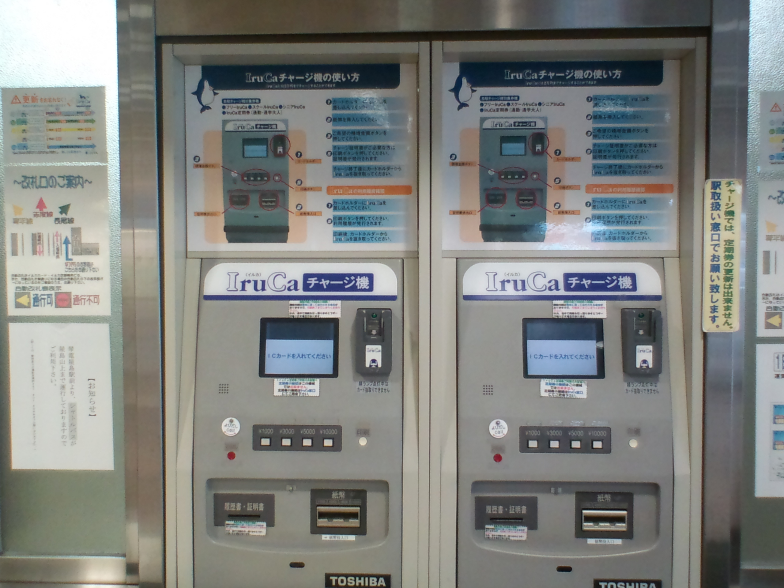 IC Card IruCa charge machine at Kawaramachi Station.